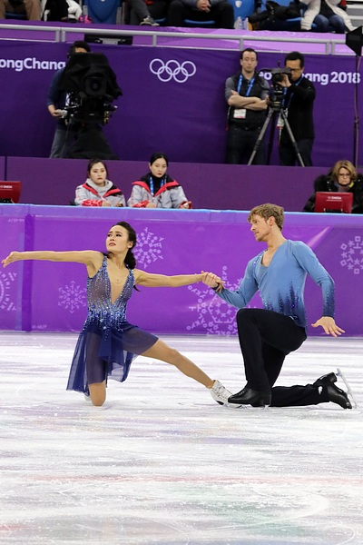 Madison Chock and Evan Bates at the 2018 Winter Olympic Games in PyeongChang